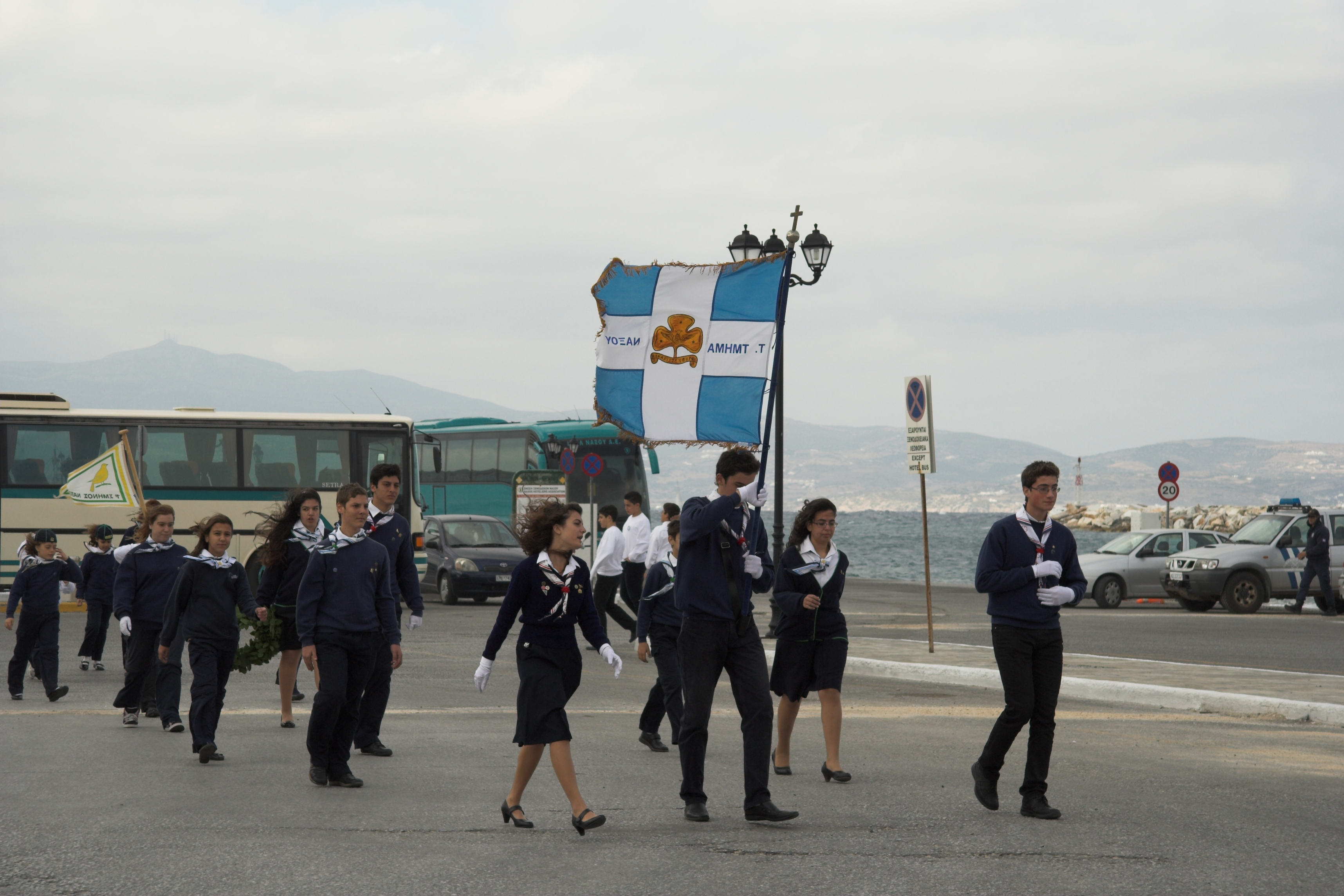 National Day OCHI in Chora of Naxos. Ariadne's seafront.